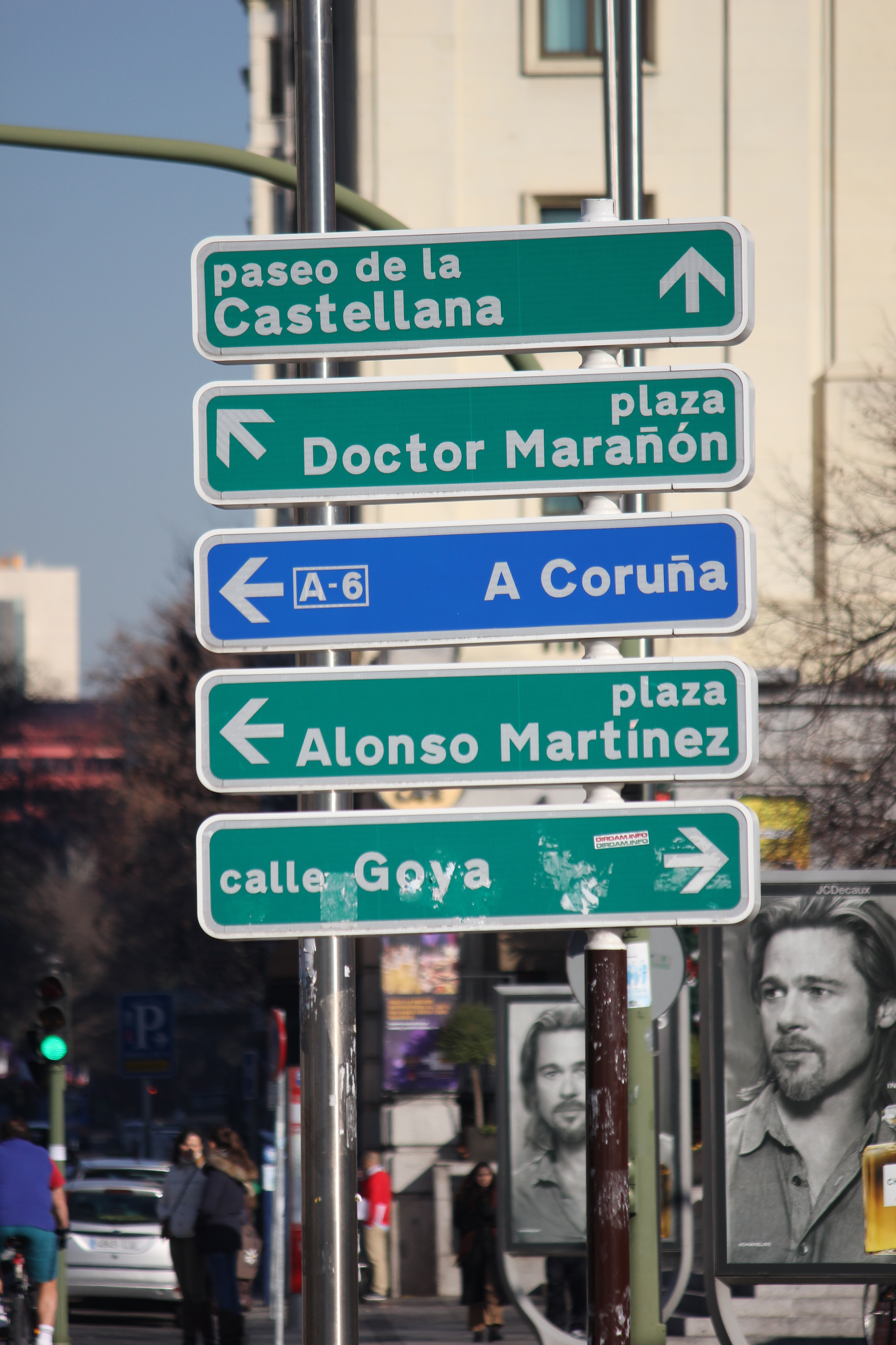 Road sign in Madrid for Paseo de la Castellana, Plaza Doctor Maranon, A-6 A Coruna, Plaza Alonso Martinez, Calle Goya.